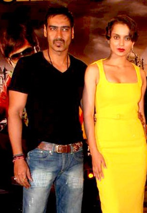 100 days completion party of 'Once Upon A Time In Mumbaai'